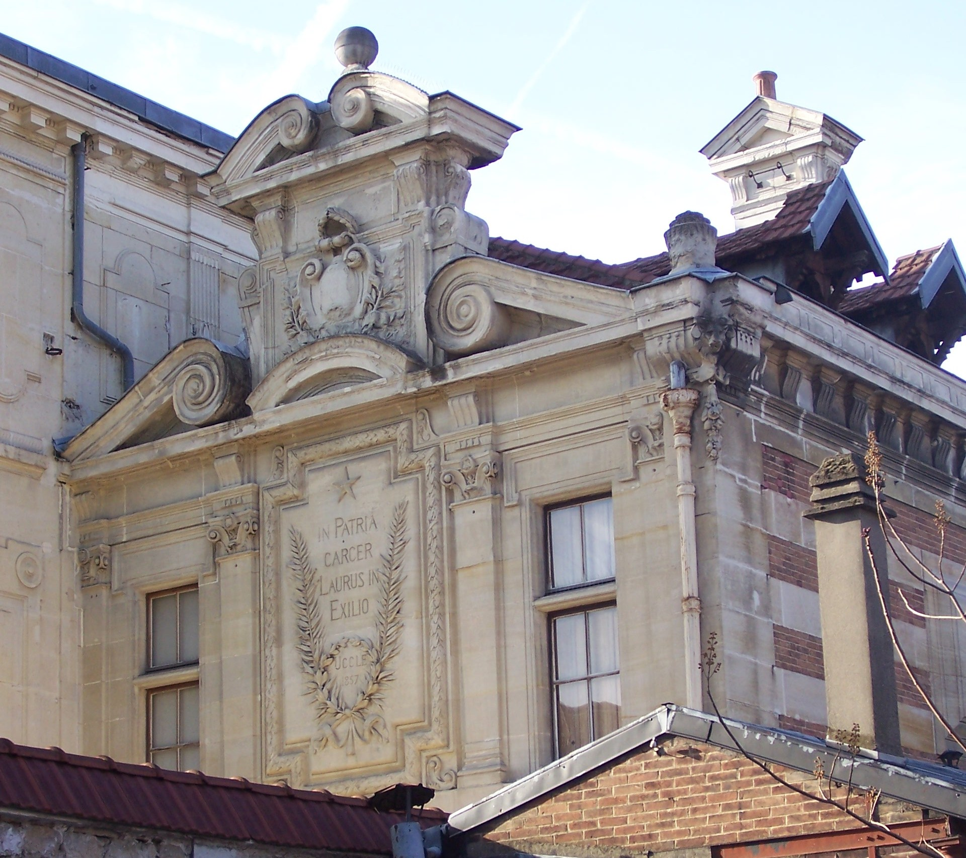 home of François Vincent Raspail